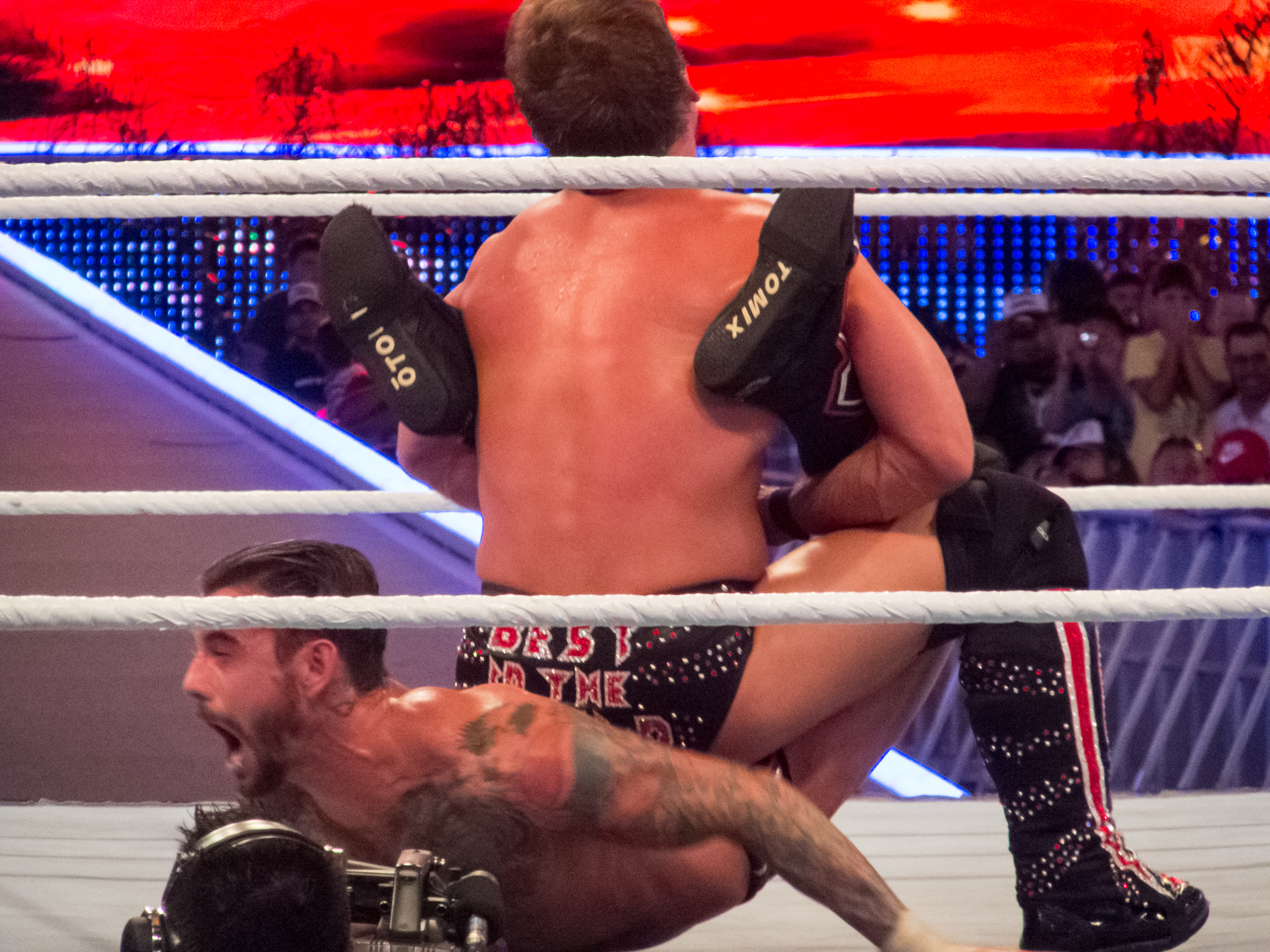 Chris Jericho puts CM Punk in the Walls of Jericho, a Boston crab submission move at WrestleMania 28.